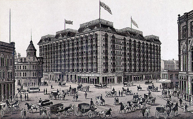 Engraved illustration of the original Palace Hotel in San Francisco, CA